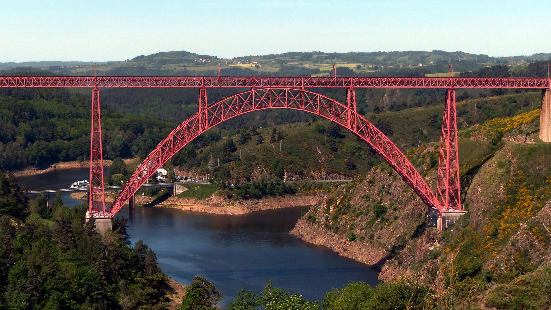 Viaduct of Garabit, above the Truyère (massif central - France), taken from the area of motorway A75